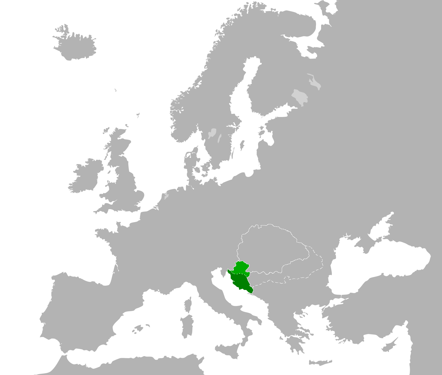 Kingdom of Croatia in 1260, with Slavonia as an autonomous province, both under the King of Hungary. At the time it was in personal union with Kingdom of Hungary. Based on the map "IV. Béla birodalma 1260 táján" from Hóman-Szekfű: Magyar Történet